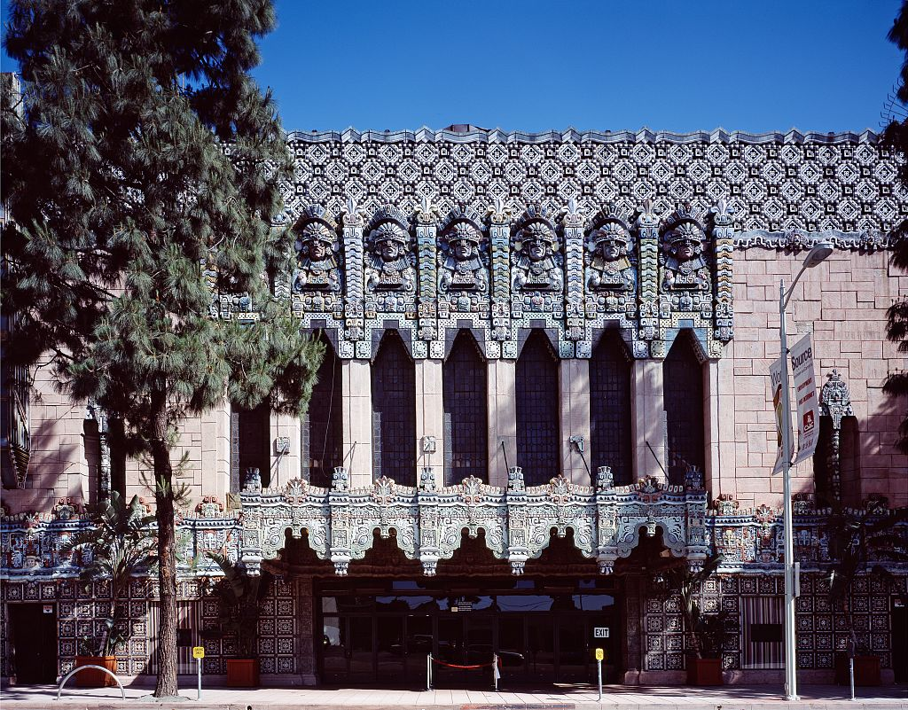 The brightly painted 1927 Mayan Theater facade was originally a light gray. The paint job accentuates the allure of Francisco Comeja's seven "warrior-priests" relief, looming above the entrance. Originally a musical-comedy venue and cinema, it is a present day salsa club and events venue. 04/07/05, LC-DIG-pplot-13725-01380 (digital file from LC-HS503-503)